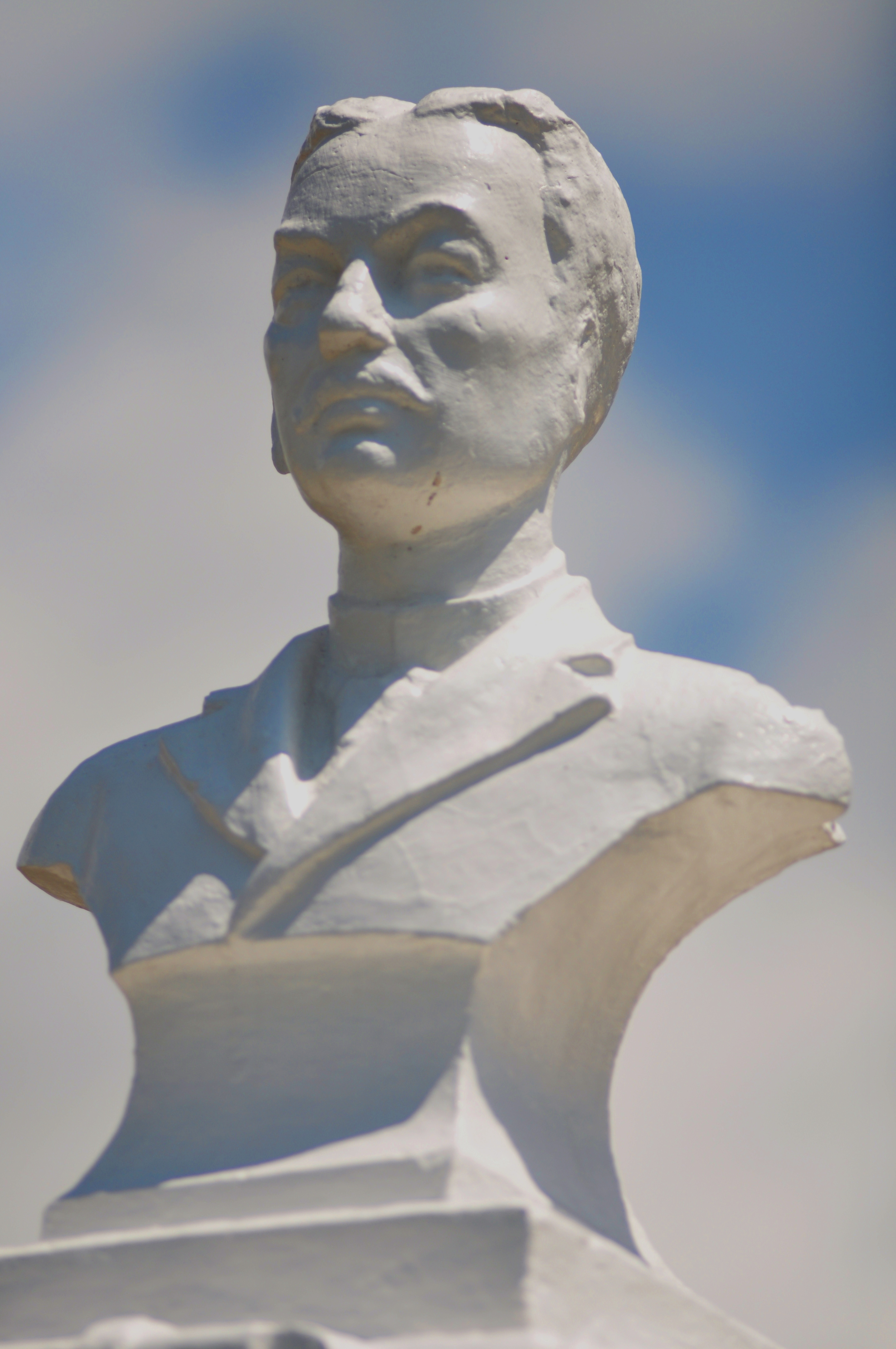 Jose maria panganiban bust 1